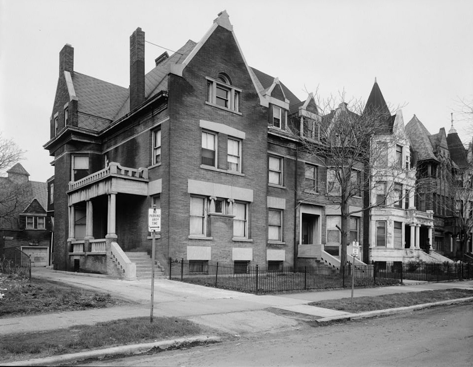 Robert S. Abbott House, 4742 Martin Luther King Drive, Chicago (Cook County, Illinois)(cropped)